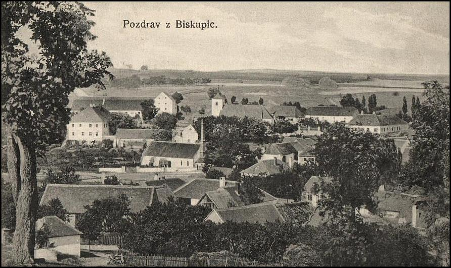 View of Biskupice in 1916, Třebíč District.